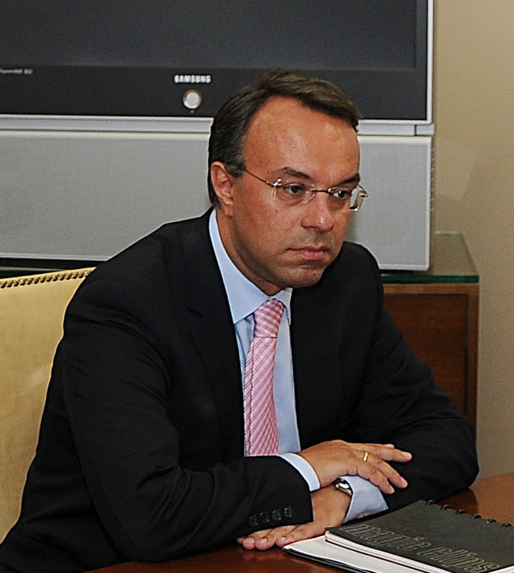 Greek Minister of Finance, Christos Staikouras